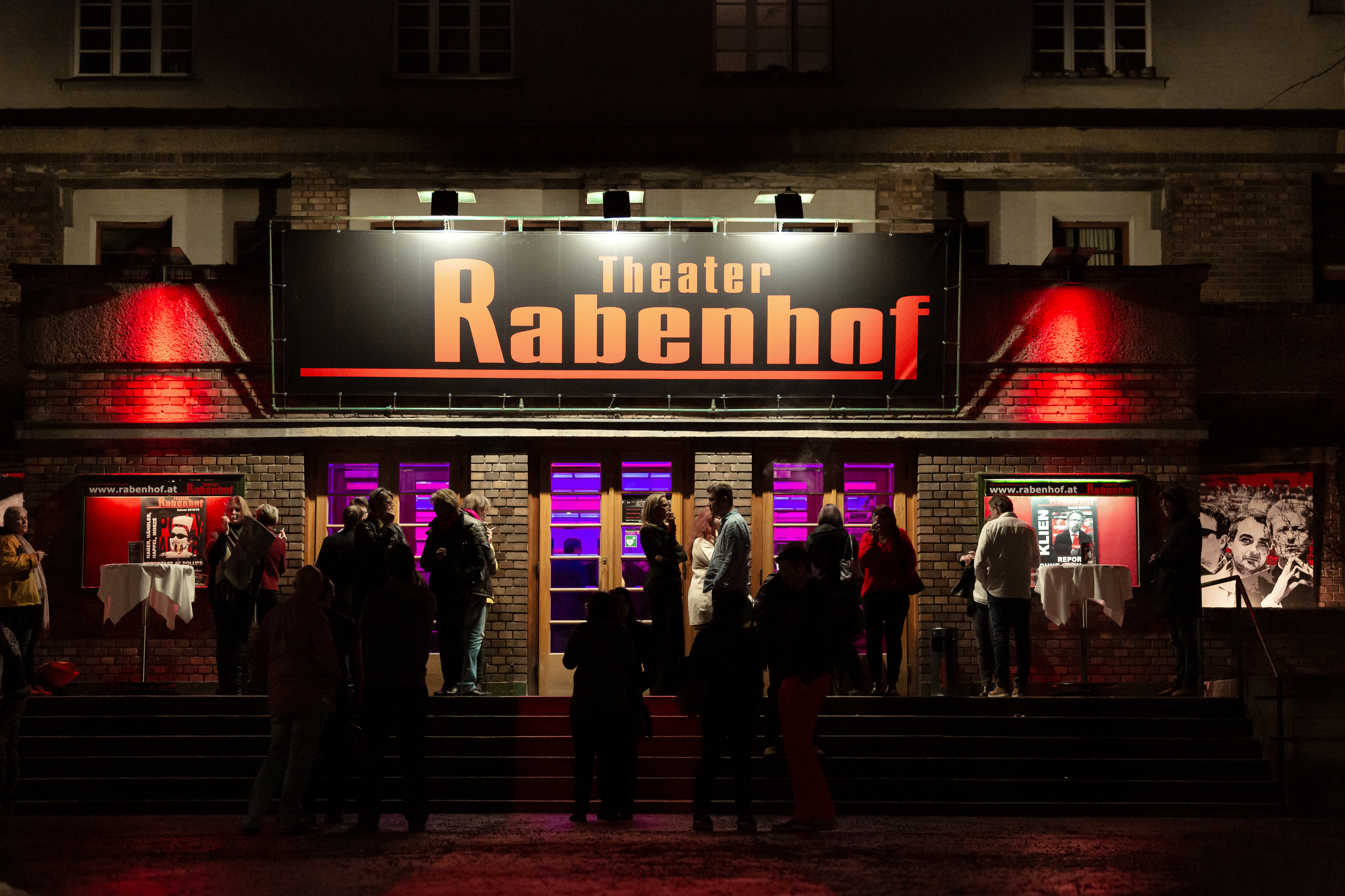 Rabenhof Theater in Vienna, Austria. This media shows the Vienna residential building (Gemeindebau) with the ID 78.